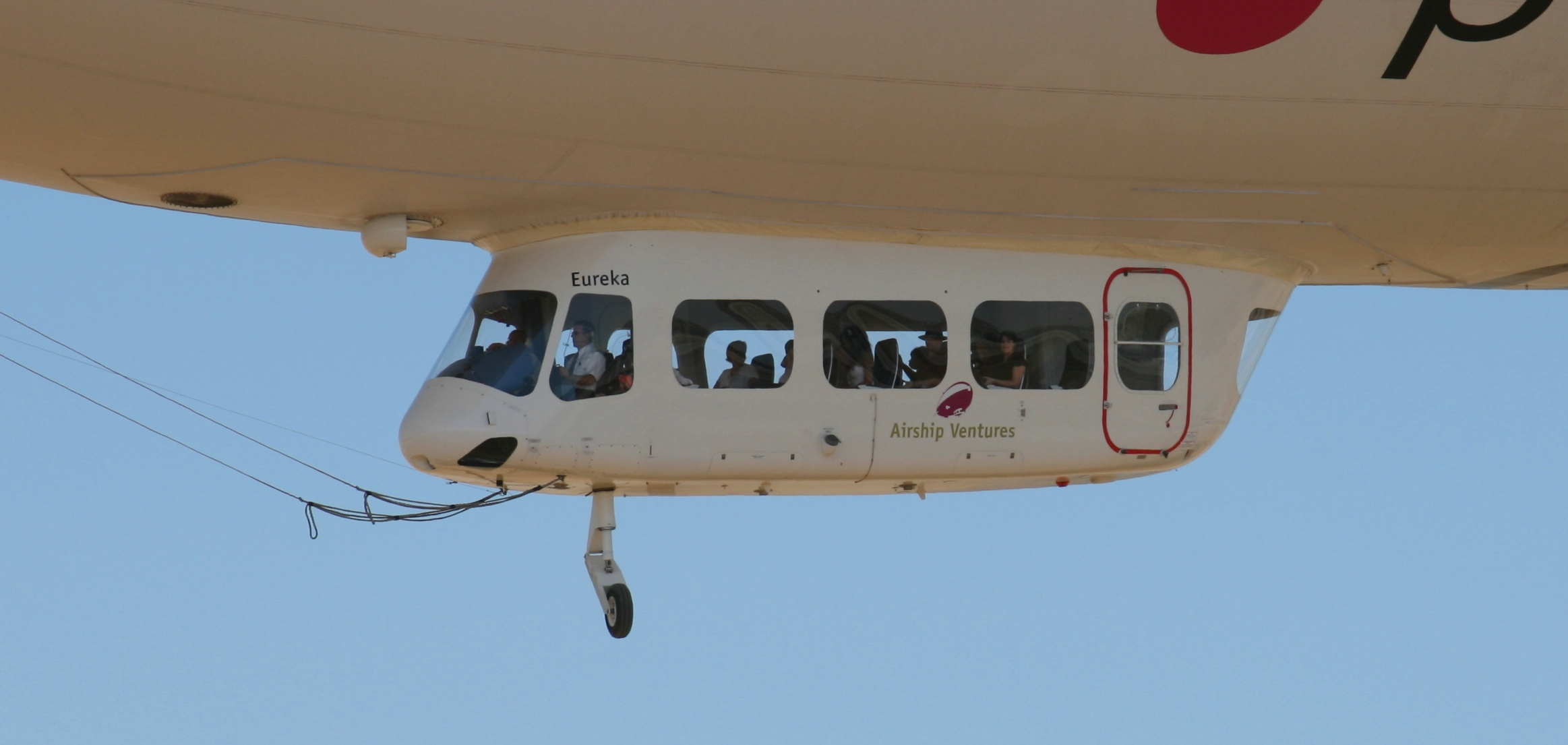 Zeppelin NT (July 2009)